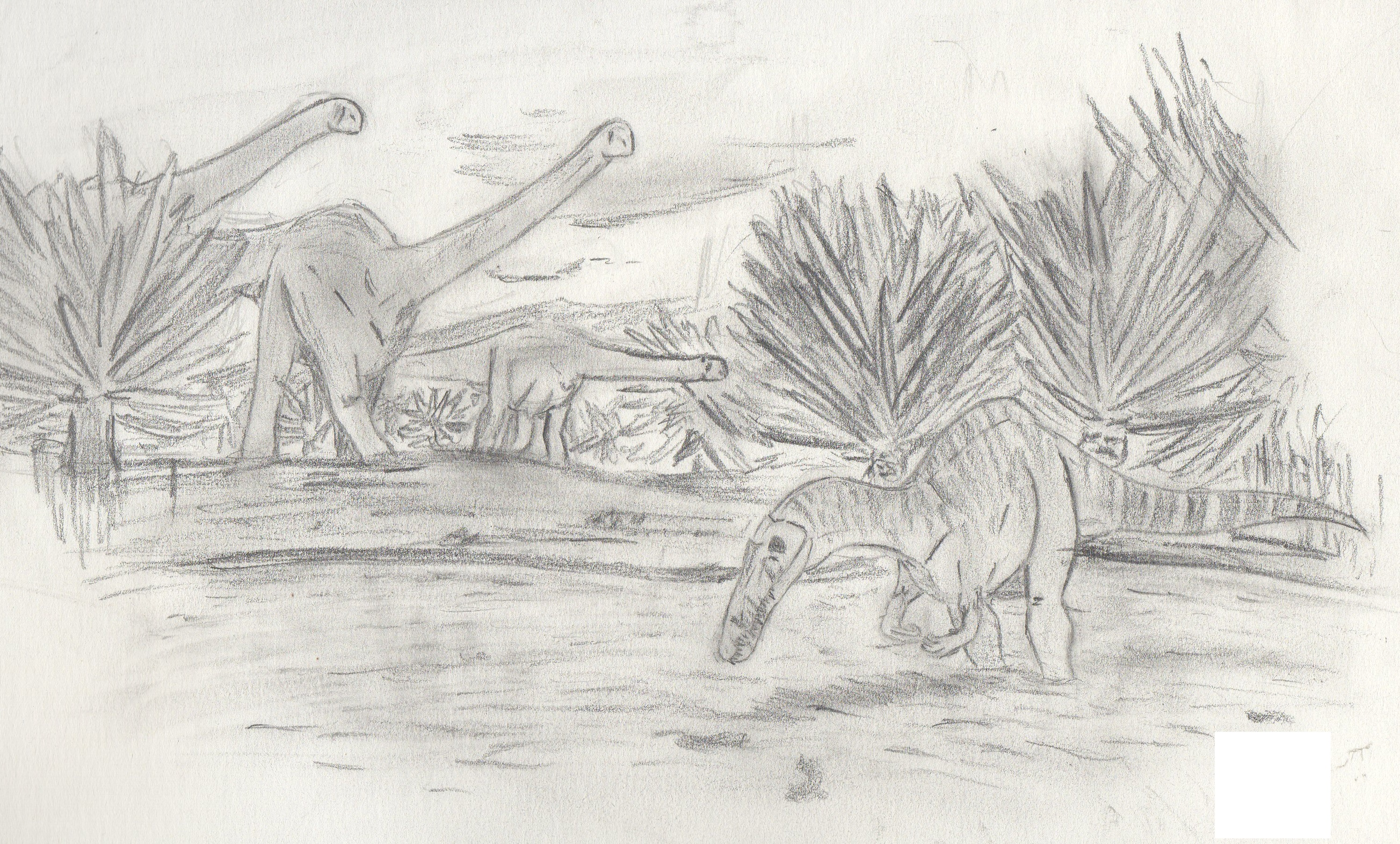 Sao Khua formation Siamosaurus suteethorni and Phuwiangosaurus sirindhornae